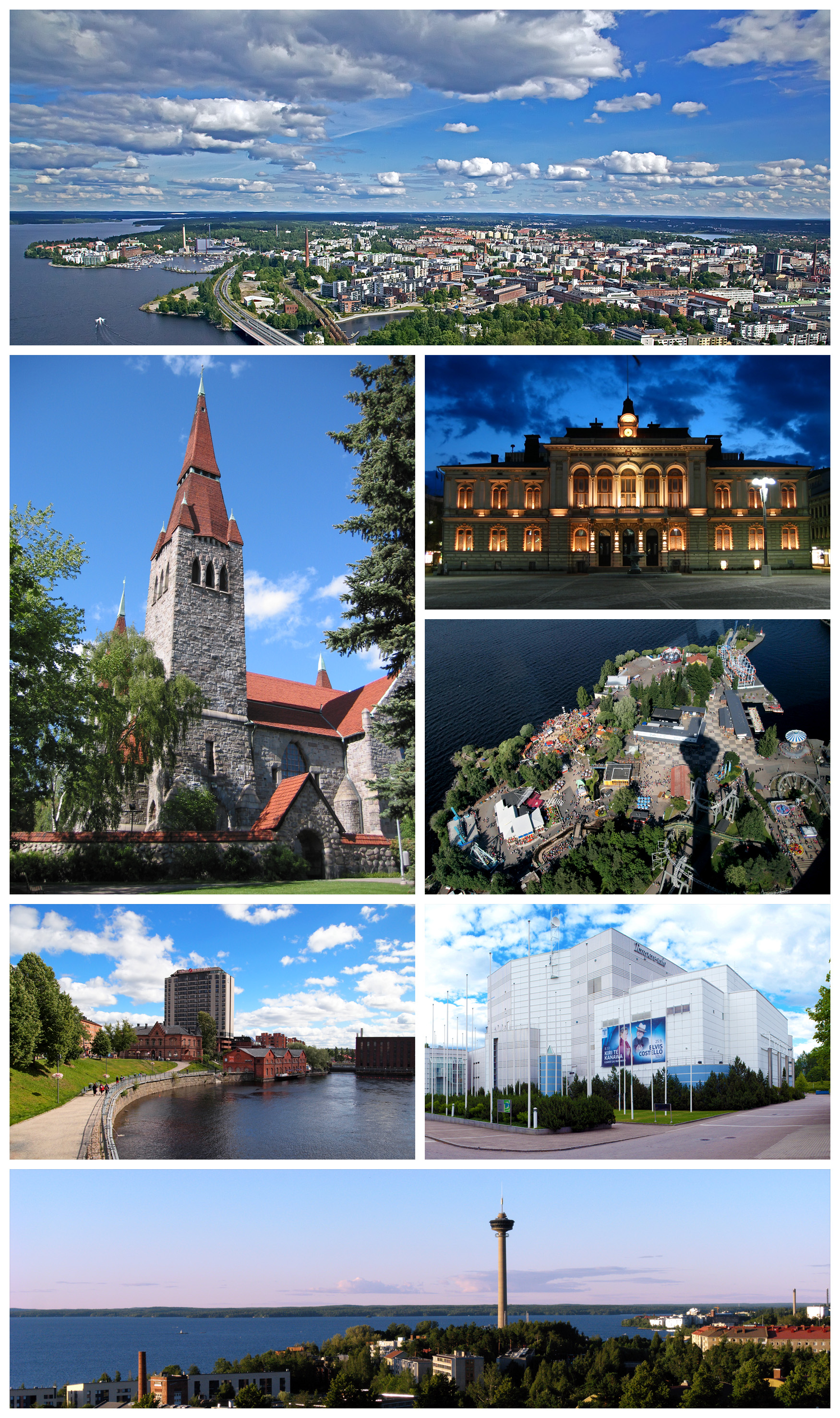 A montage of the city of Tampere, Finland. Includes pictures (clockwise from top-left) of the cityscape (from Näsinneula), the Tampere City Hall, Särkänniemi (from Näsinneula), Tampere Hall, the skyline with Näsinneula, Tammerkoski from the bridge Hämeensilta (including Sokos Hotel Ilves), and the Tampere Cathedral.